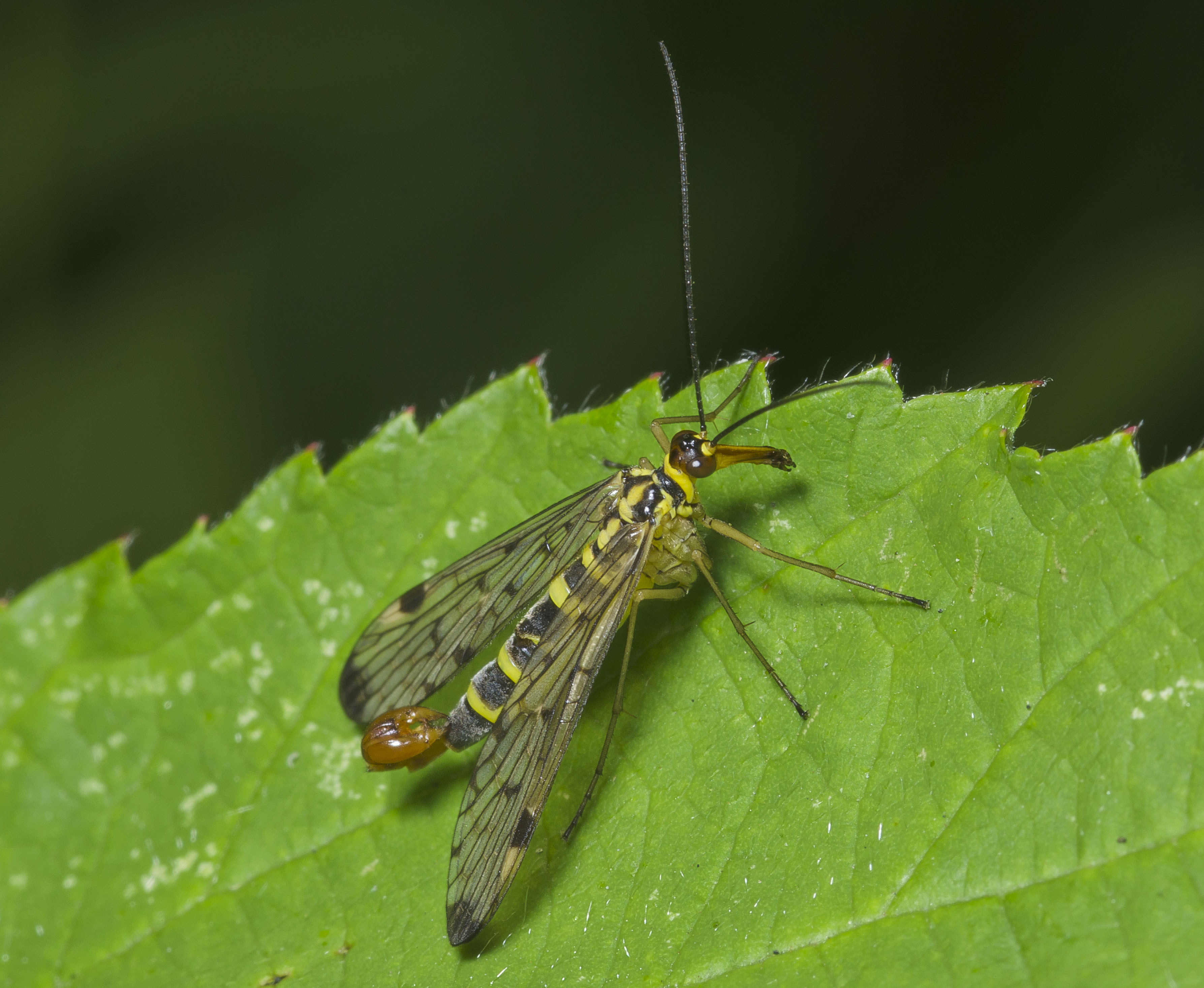 Panorpa germanica, m, forest near Stuttgart, Germany. Thanks to the members of Entomologie.de for the identification.